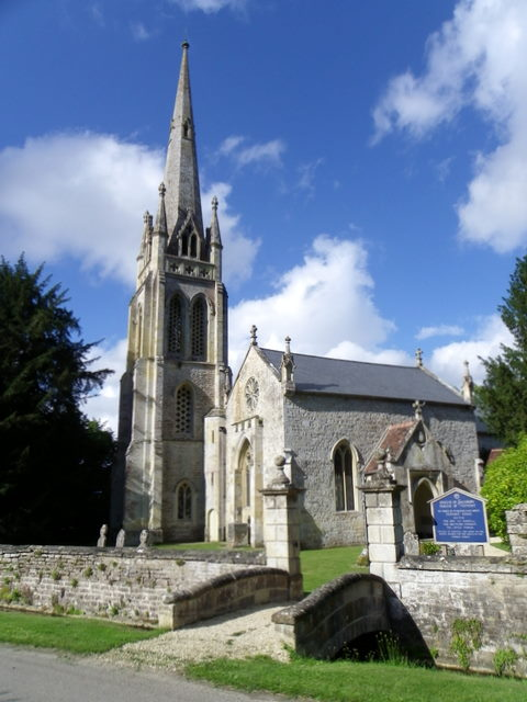 St Michael's Church, Teffont Evias